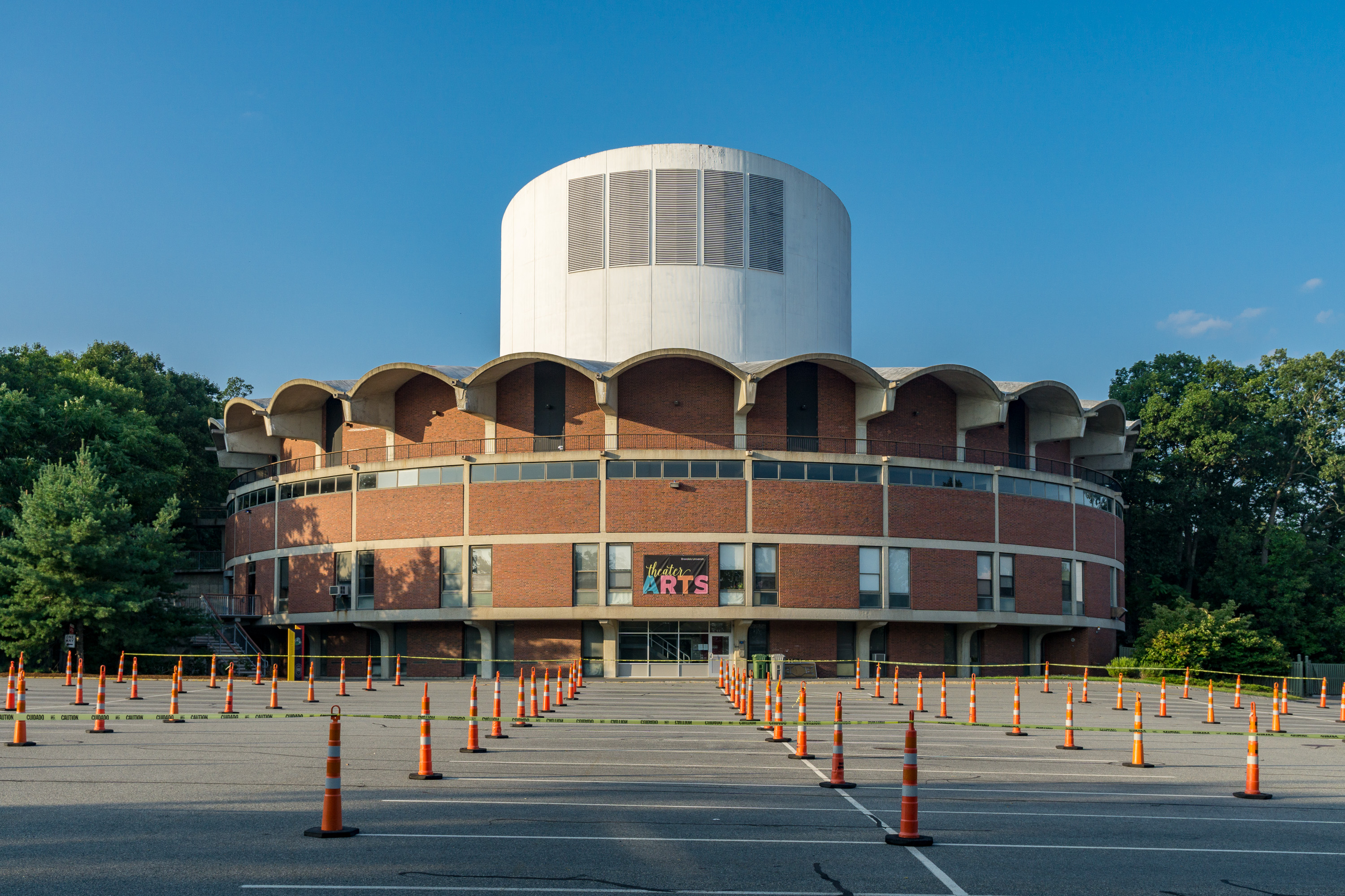 Spingold Theatre, Brandeis University. Harrison & Abramovitz, 1965. This is the rear of the building. Parking lot is emptied for returning students.